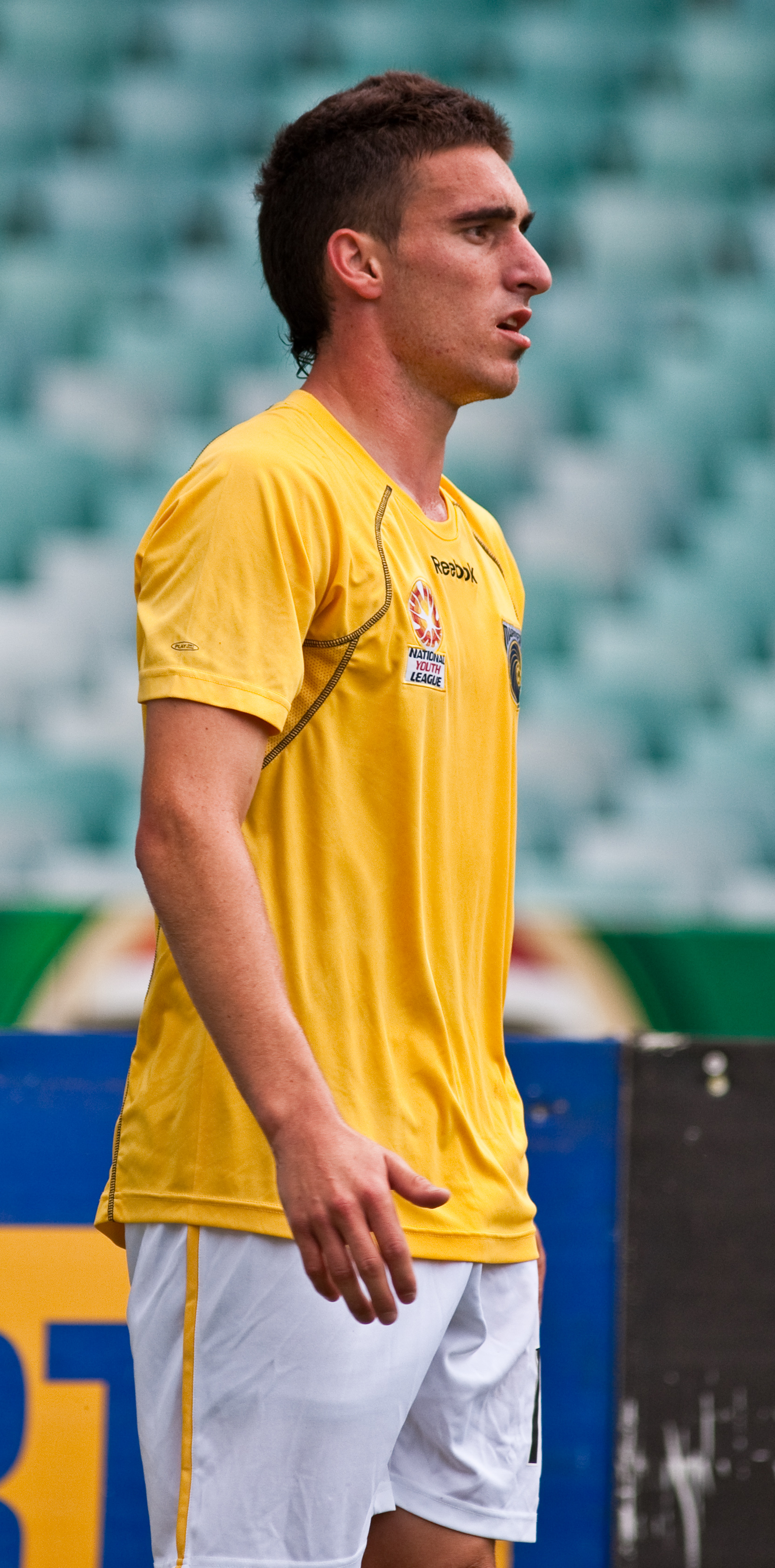 Panny Nikas playing for the Central Coast Mariners Youth team.